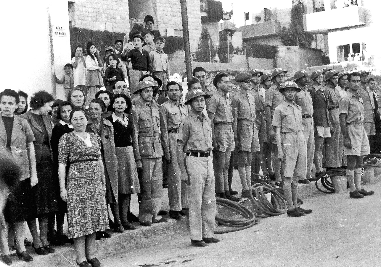 Jewish Civil Defense group in Jerusalem in 1942 (then British Mandatory Palestine). The group served as ARP Fire Wardens, equipped with water hoses and buckets, some wearing FW (Fire Watcher) Brodie helmets. Men are in uniform while women wear plain clothes. Composer Josef Tal stands next to the woman with a black sweater. This work or image is now in the public domain because its term of copyright has expired in Israel (details). According to Israel's copyright statute from 2007 (translation), a work is released to the public domain on 1 January of the 71st year after the author's death (paragraph 38 of the 2007 statute) with the following exceptions: A photograph taken on 24 May 2008 or earlier — the old British Mandate act applies, i.e. on 1 January of the 51st year after the creation of the photograph (paragraph 78(i) of the 2007 statute, and paragraph 21 of the old British Mandate act). If the copyrights are owned by the State, not acquired from a private person, and there is no special agreement between the State and the author — on 1 January of the 51st year after the creation of the work (paragraphs 36 and 42 in the 2007 statute). See also category: PD Israel & British Mandate.